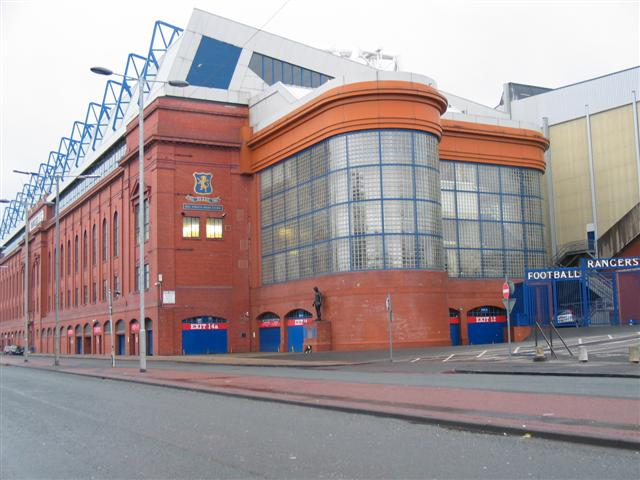 Ibrox Football Stadium